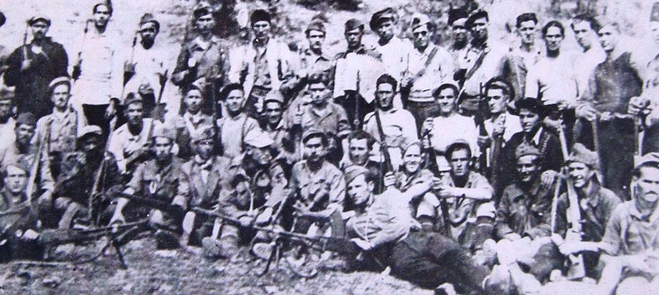 Partisan Detachment "Sava Mihajlov", set up in 1943 in Gevgelija. This media file is produced by Wikipedian in Residence in Category:Wikipedian in Residence at DARM in 2016.